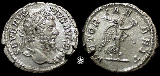 Septimius Severus. 193-211 AD. AR Denarius (2.97 gm). Struck 210 AD. SEVERVS PIVS AVG BRIT, laureate head right VICTOR-IAE BRIT, Victory walking right, holding wreath and palm. RIC IV 332; BMRE 51; Hill 1137; RSC 727. VF, scarce British victory type.